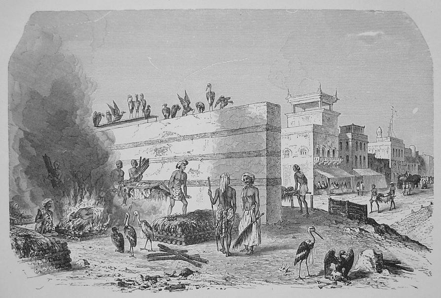 "The Cremation Ghat at Calcutta," a wood engraving (Selmar Hess, New York, 1877)